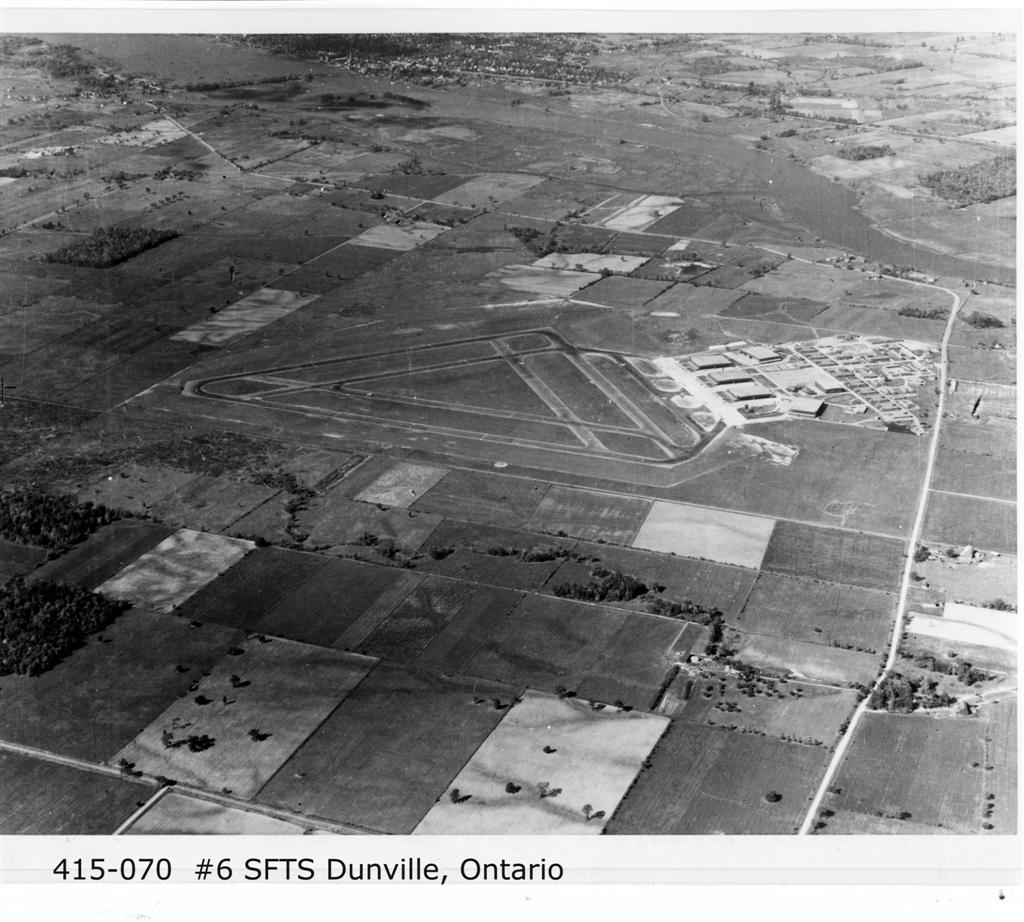 A view of No. 6 Service Flying Training School as it was in the 1940s, looking northeast with the Grand River at the top of the image.